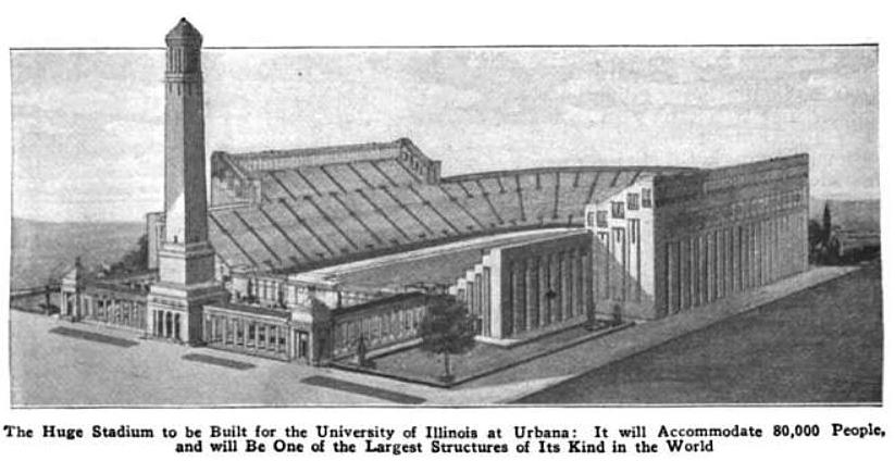 Model of the Memorial Stadium of the University of Illinois, Urbana as originally envisioned circa 1921